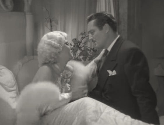 Jean Harlow & Edmund Lowe in Dinner at Eight - trailer (cropped screenshot)